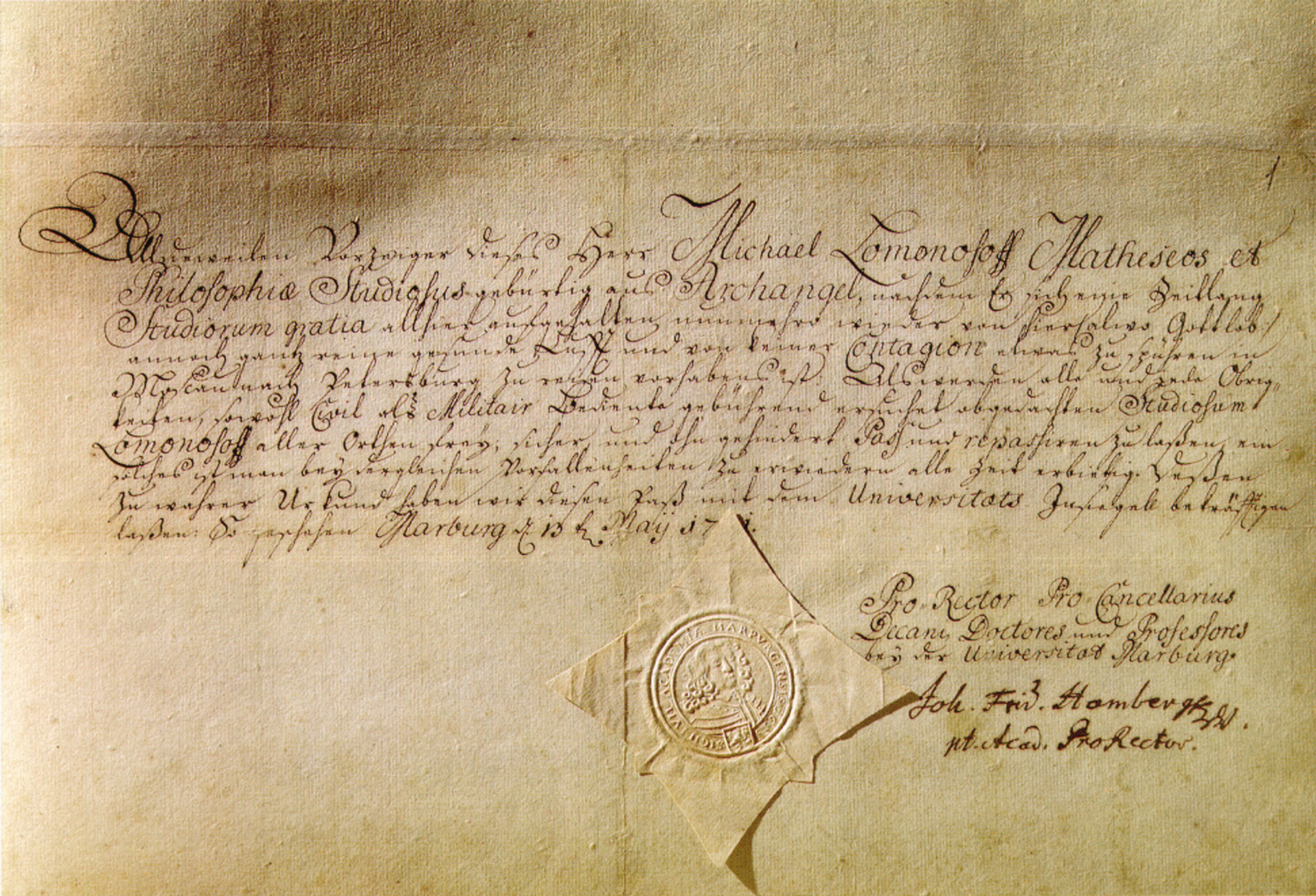 Lomonosov's passport of Marburg University. May 13, 1741